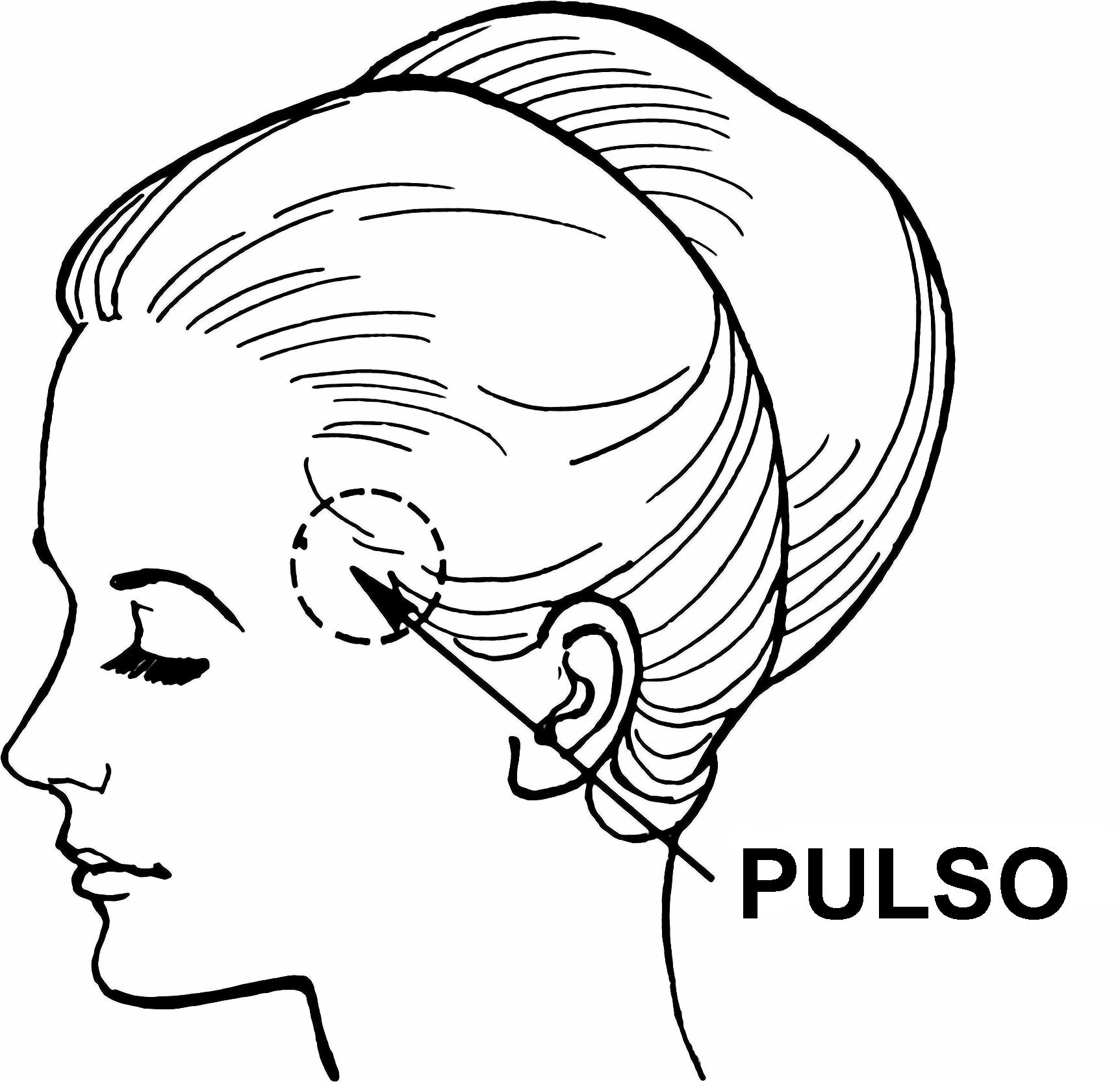 Line art representation of Temple